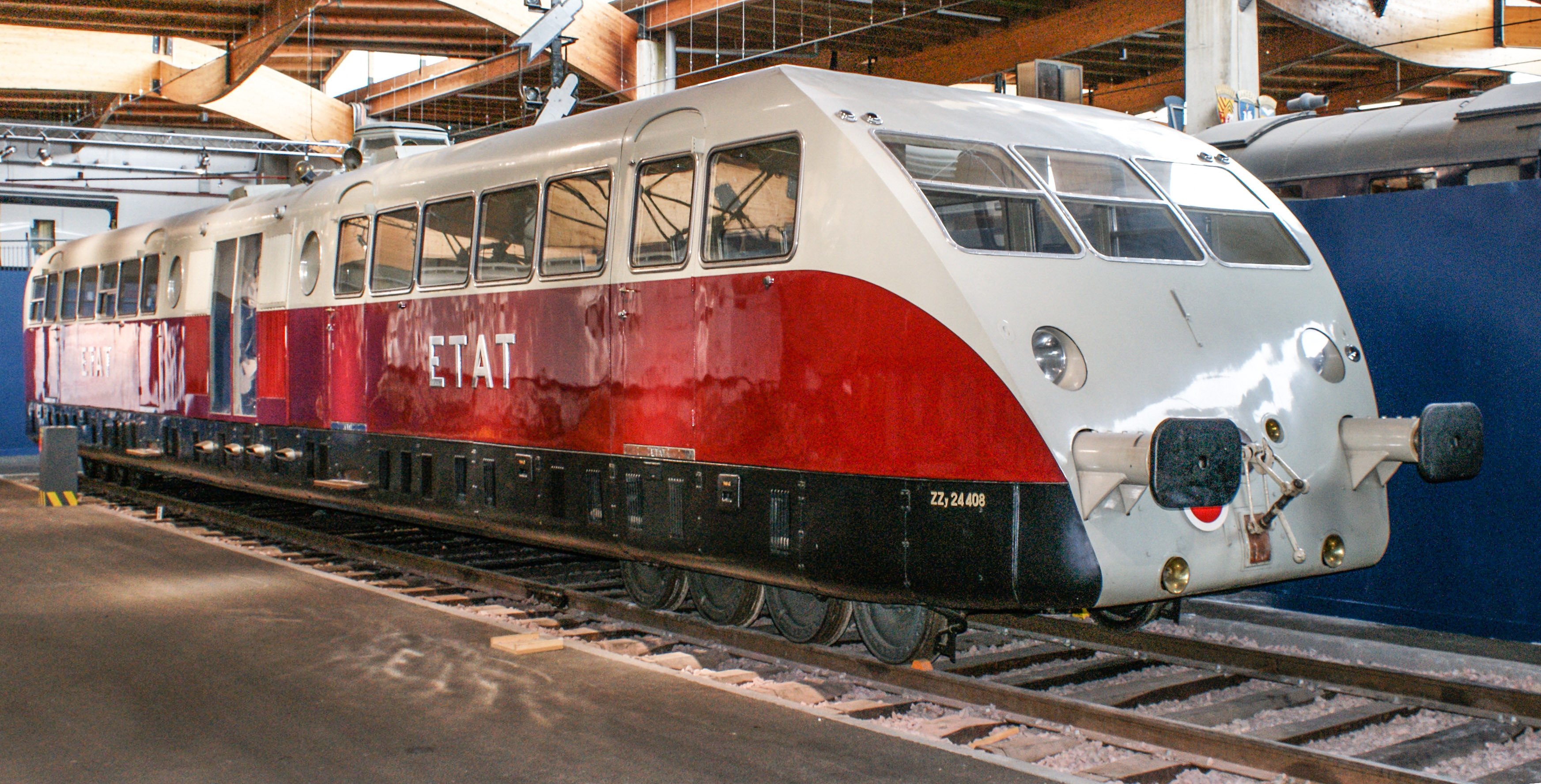 État Bugatti "Presidential" Class diesel railcar No.ZZy 24408 (SNCF No.XB 1008), at the French Railway Museum, Mulhouse, 2009.